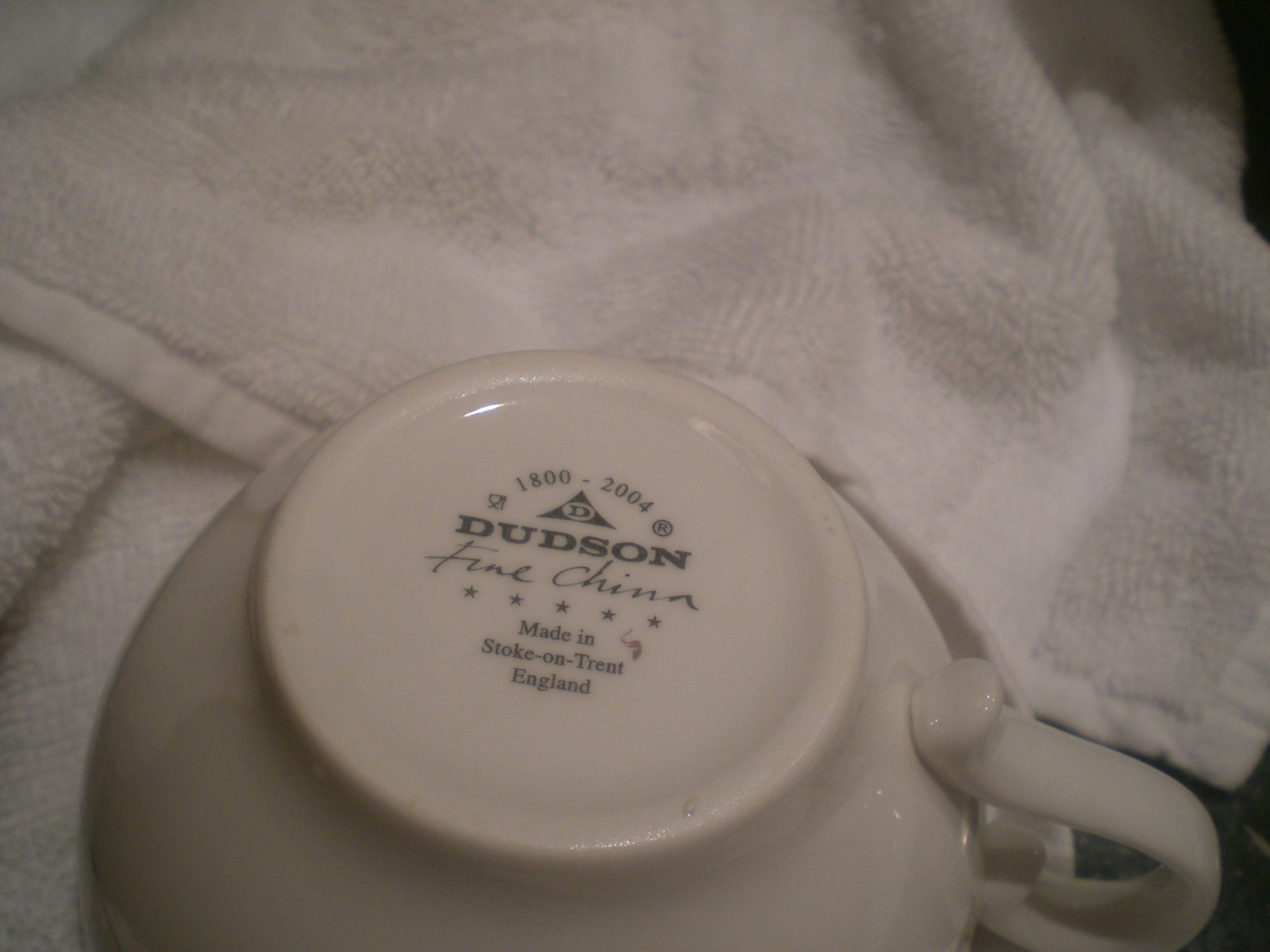 香港迪士尼樂園酒店zh:酒店客房 杯 毛巾 & Dudson牌子